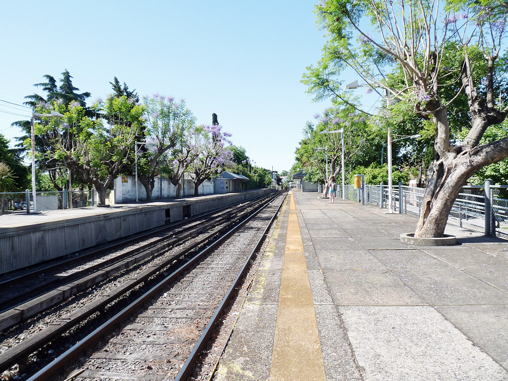 Cetrangolo train station. View from the downward platform.